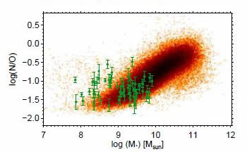 This is a graph taken as a screenshot taken from a publication on . The author of this publication, Ricardo Amorin, has given me permission to use it and as an arXiv publication it is available for free use under Creative Commons Attribution-Noncommercial-ShareAlike license ( The screenshot was edited by Richard Nowell who has uploaded it for use in the article entitled Pea Galaxy. R.Amorin's email is: .Richard Nowell (talk) 11:47, 9 June 2011 (UTC)